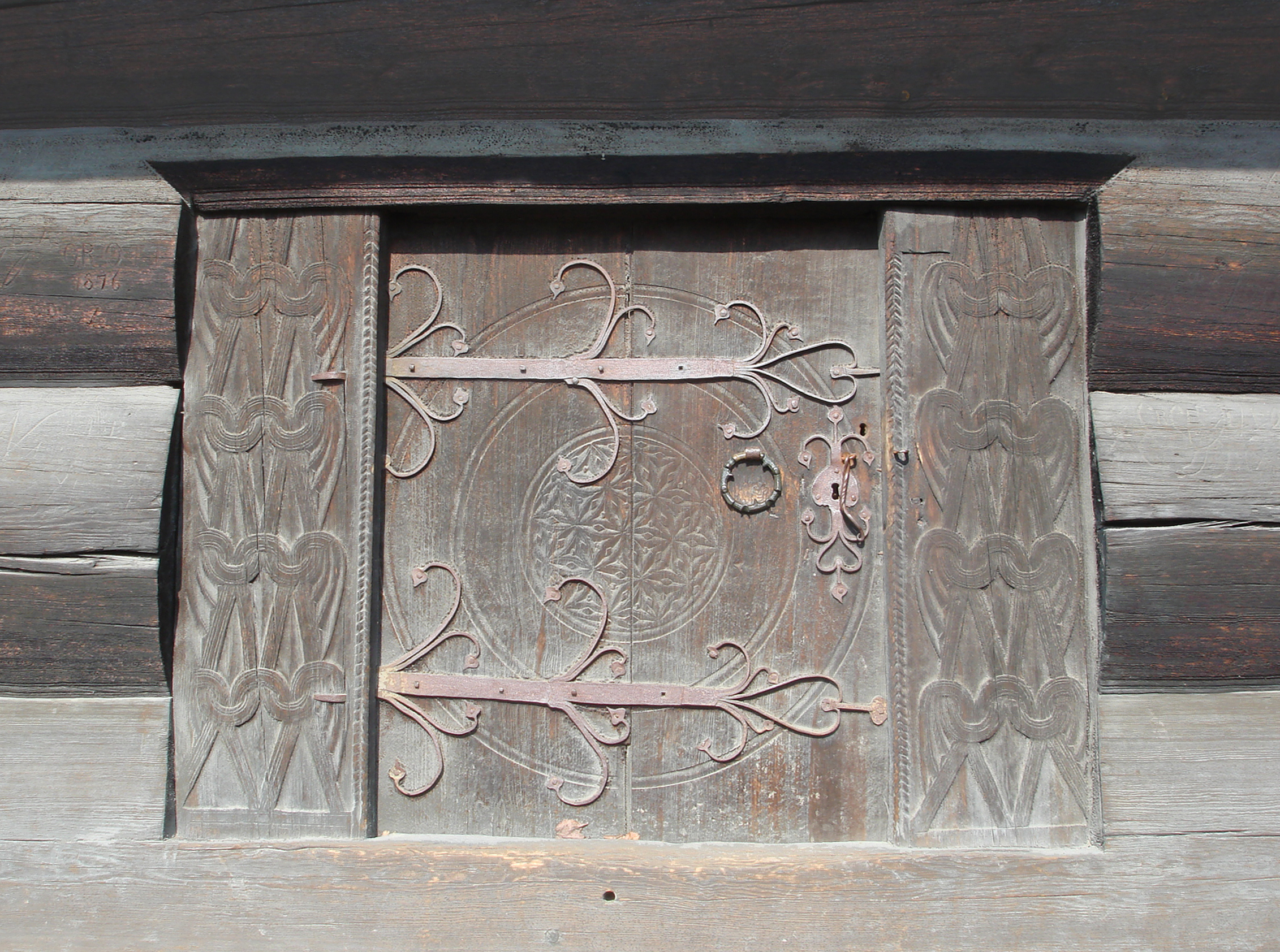 Door of loft from Ose, Setesdal, ca. 1700. Now at the Norsk Folkemuseum.